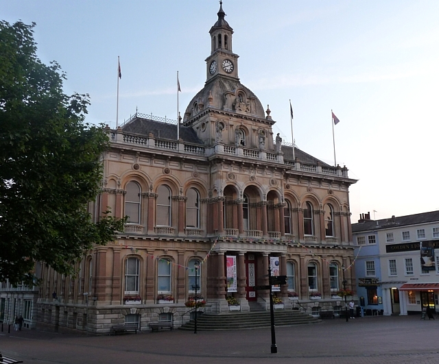 Former Town Hall, Ipswich By Bellamy and Hardy, 1867. In an Italianate style, though the pavilion roof is more French. Grade II listed. Pevsner says it is all "quite undistinguished".